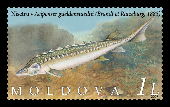 Stamp of Moldova